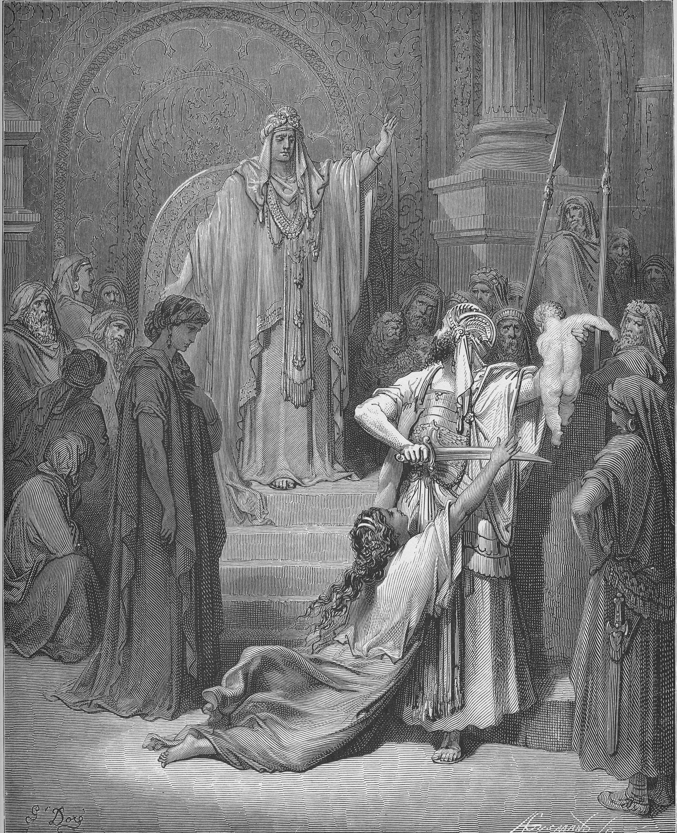 The Judgment of Solomon (1Kings 3:16-28)